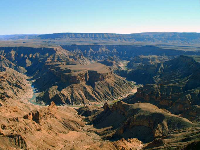 Fish River Canyon, Namibia